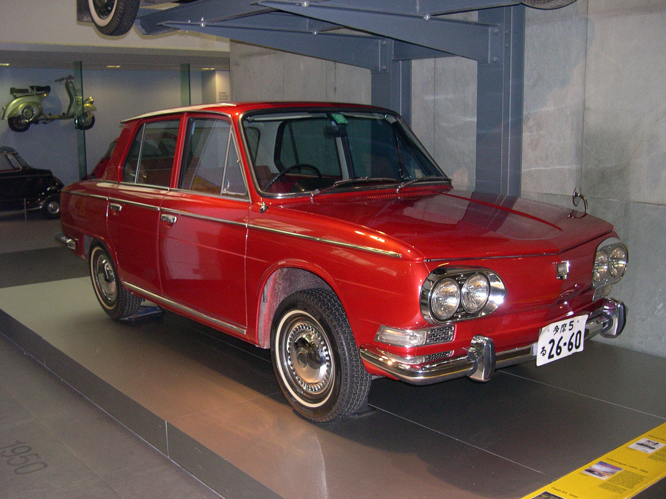 Hino Contessa 1300 at London Science Museum